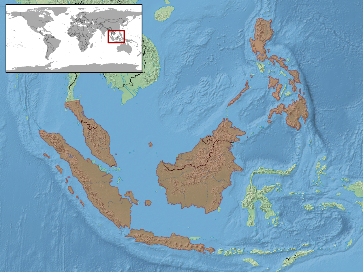 geographic distribution of Boiga cynodon (Native: Brunei Darussalam; Indonesia (Bali, Jawa, Kalimantan, Sumatera); Malaysia; Philippines; Singapore; Thailand)